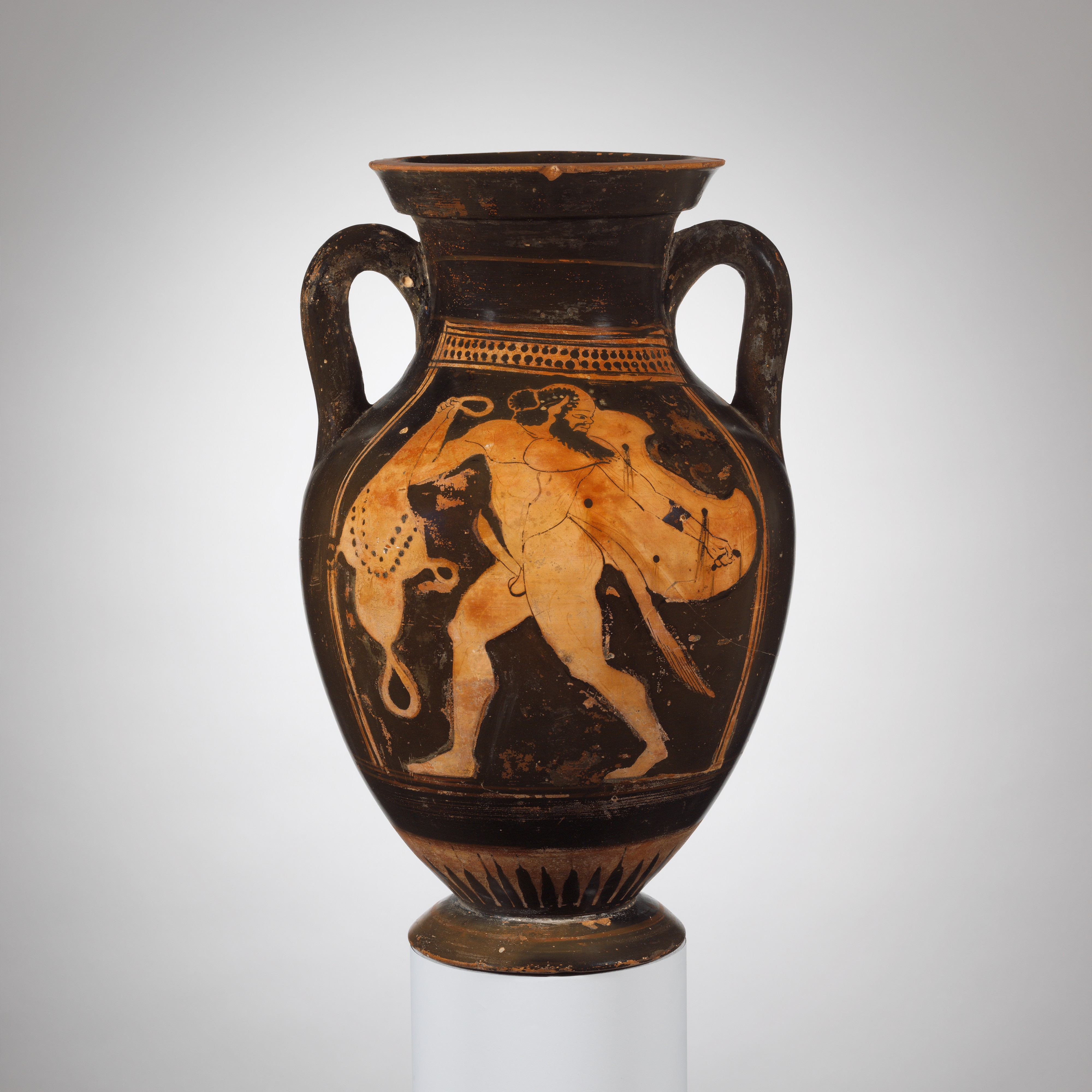 Greek, Attic; Amphora, Type B; Vases; Obverse, satyr with pelta (crescent-shaped shield) and thyrsos (fennel stalk with ivy); Reverse, satyr with pelta and wineskin